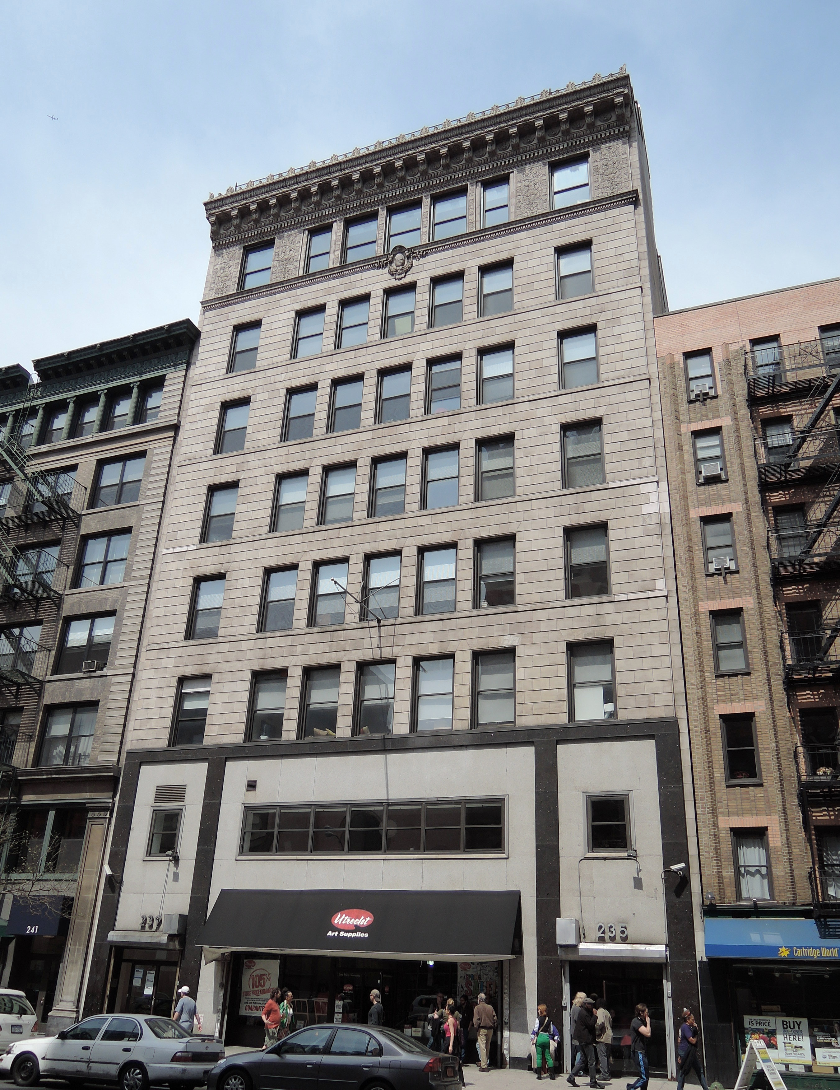 Looking across 23d Street.